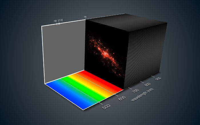 Three-dimensional depiction of NGC 4650A with MUSE instrument installed on VLT using Integral Field Spectroscopy tecnology. For each part of the galaxy the light has been split up into its component colours, revealing the motions of different parts of the galaxy and its chemical composition and other properties.